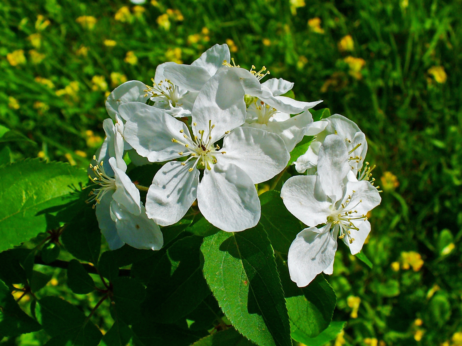 Malus sylvestris, Rosaceae, European Wild Apple, flowers; Botanical Garden KIT, Karlsruhe, Germany.